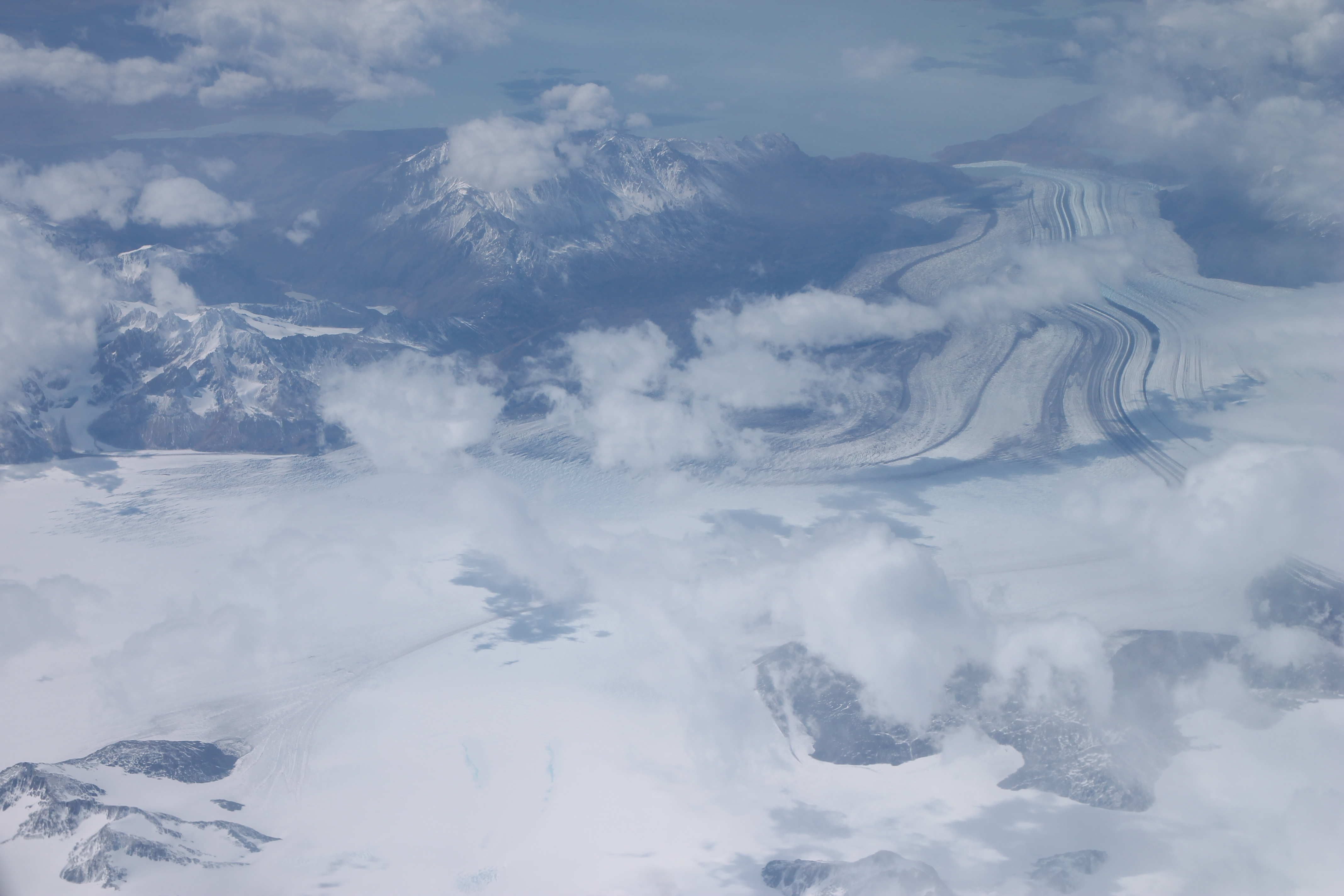 View of Chile coutryside during commercial flight from Puerto Montt to Punta Arenas